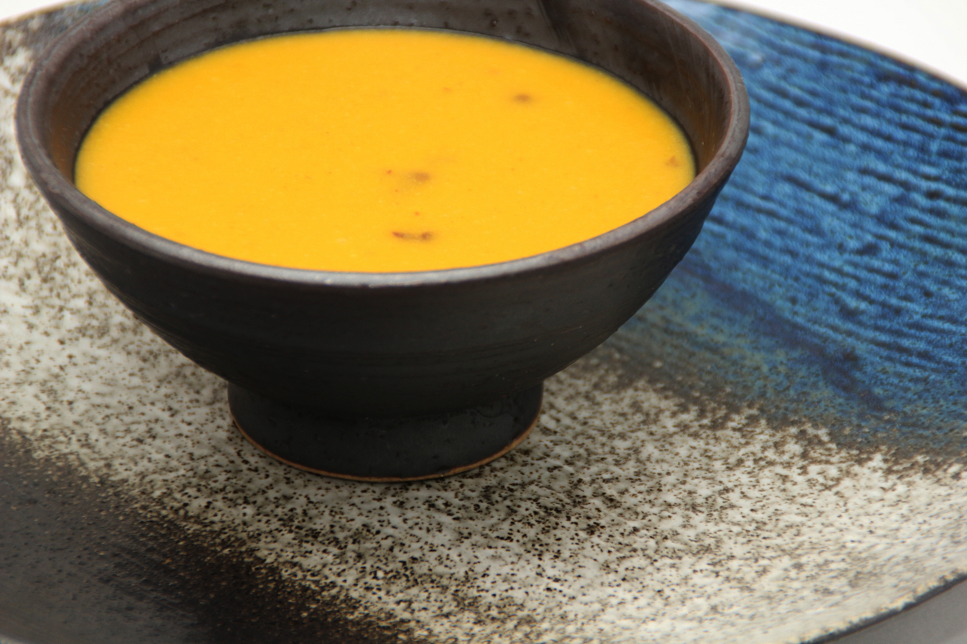 Hobak-juk